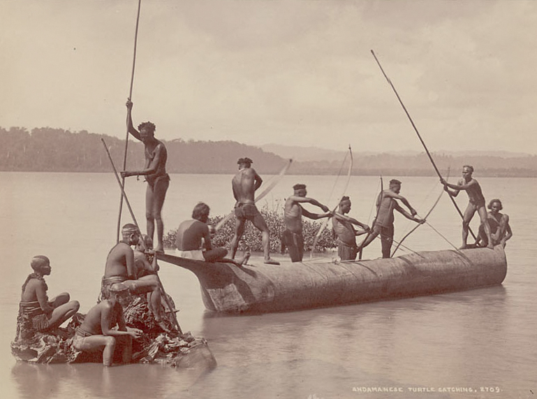 Group of Andaman Men and Women in Costume, Some Wearing Body Paint And with Bows and Arrows, Catching Turtles from Boat on Water